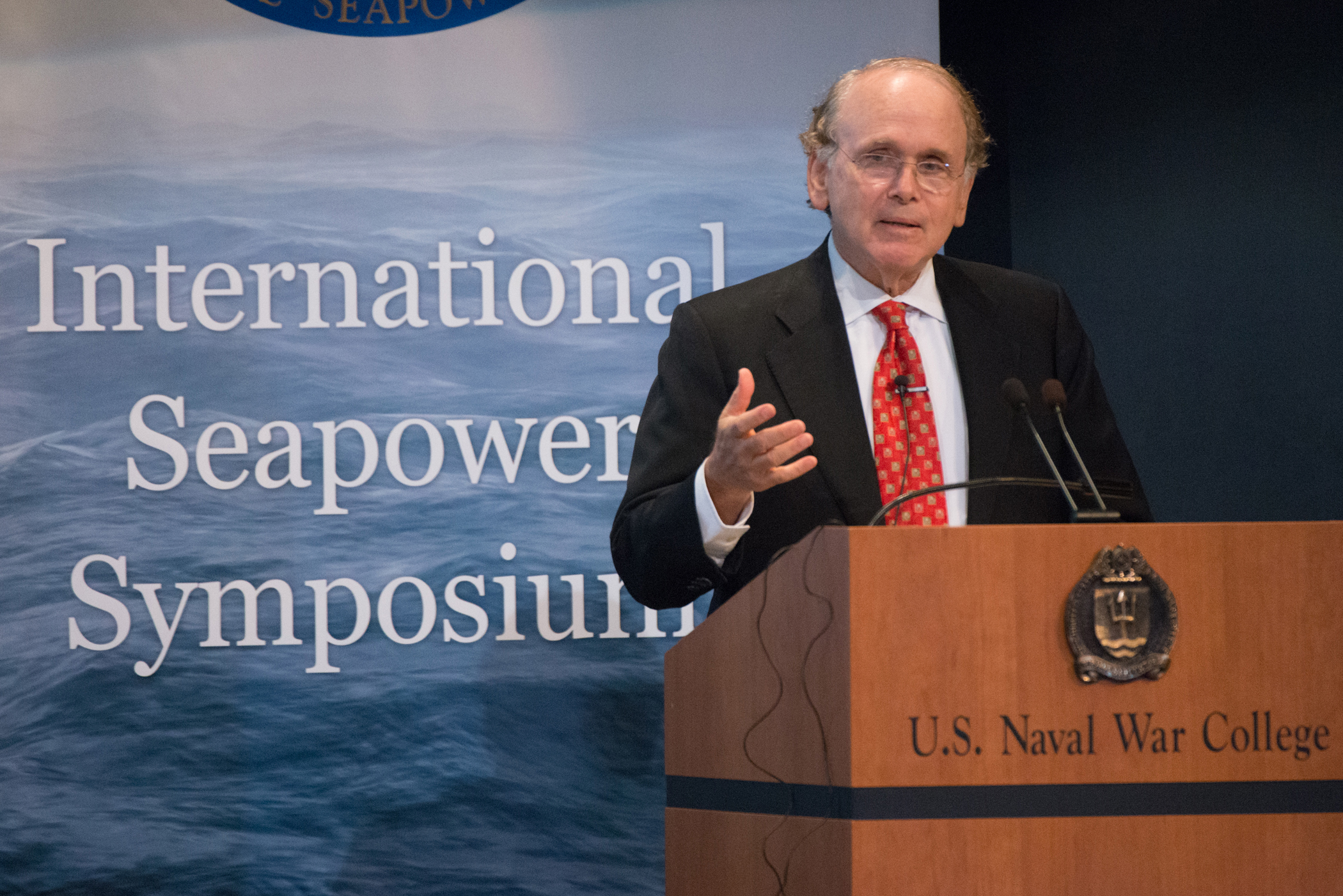 140917-N-TB118-036 NEWPORT, R.I. (Sept. 17, 2014) Daniel Yergin, author, global energy expert and Pulitzer Prize winner for “The Prize: The Epic Quest for Oil, Money and Power,” provides remarks during the Chief of Naval Operations’ 21st International Seapower Symposium (ISS) at U.S. Naval War College in Newport, Rhode Island. More than 170 senior officers and civilians from more than 100 countries, including many of the senior-most officers from those countries’ navies, are currently attending the biennial event Sept. 16-19. This year’s theme is “Global Solutions to Common Maritime Challenges,” and will feature guest speakers and three panel discussions to explore shared global concerns: "Future Trends in Maritime Security," "Maritime Implications of Climate Change," and "Enhancing Coalition Operations." First held in 1969, ISS has become the largest gathering of maritime leaders in history and provides a forum for senior international leaders to create and solidify solutions to shared challenges and threats in ways that are in the interests of individual nations. (U.S. Navy photo by Chief Electronics Technician James Clark/Released) VIRIN: 140917-N-TB118-036